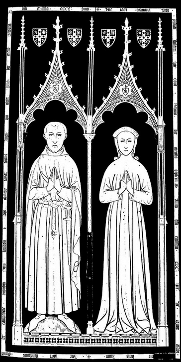 Monumental brass of William Greville (d.1401), wool-merchant, Chipping Campden Church, Gloucestershire, England. 19th c. brass rubbing. His arms are shown in the four escutcheons at top and his merchant's mark is shown in each of the two pediments